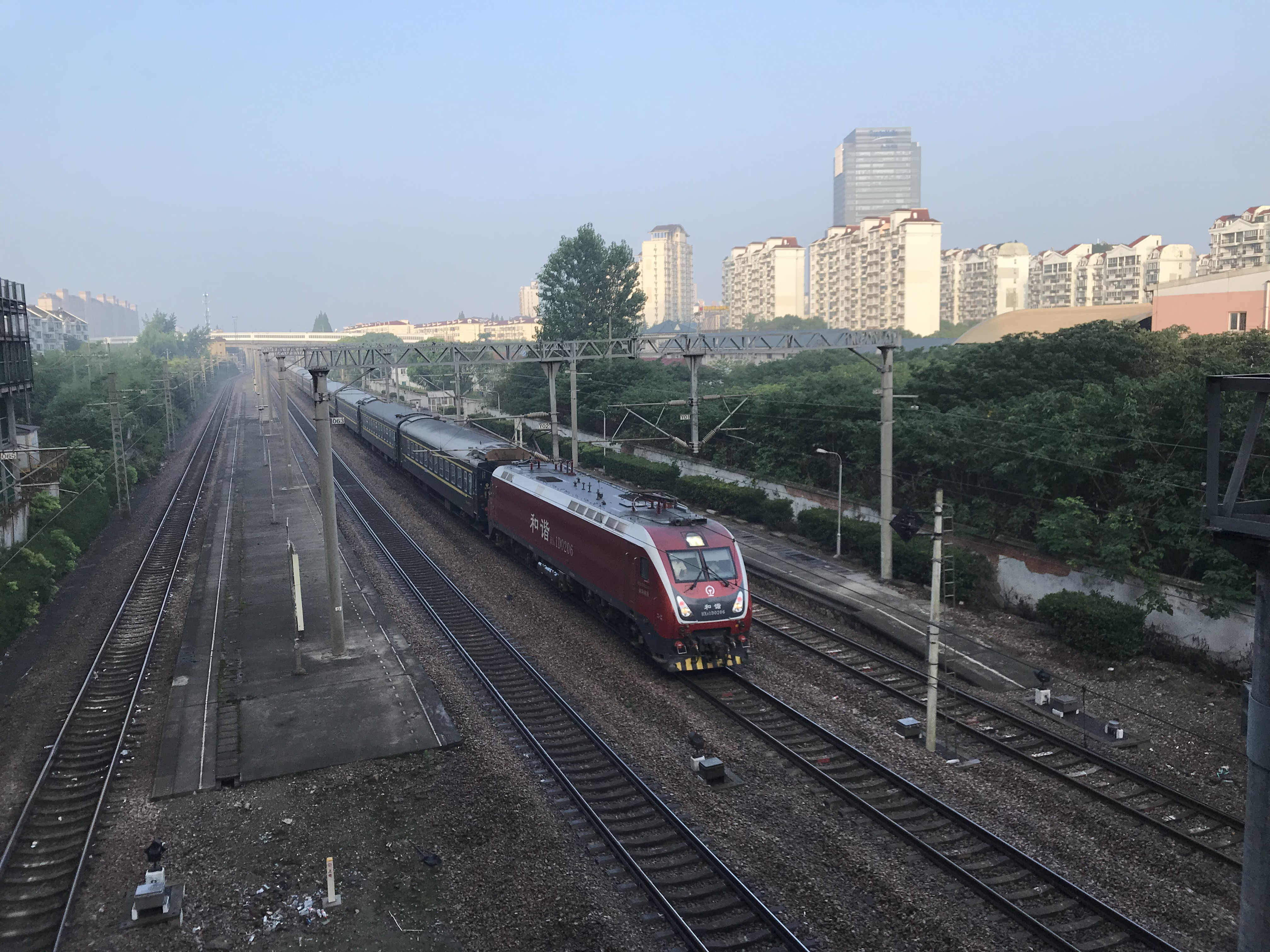 Not easy to catch